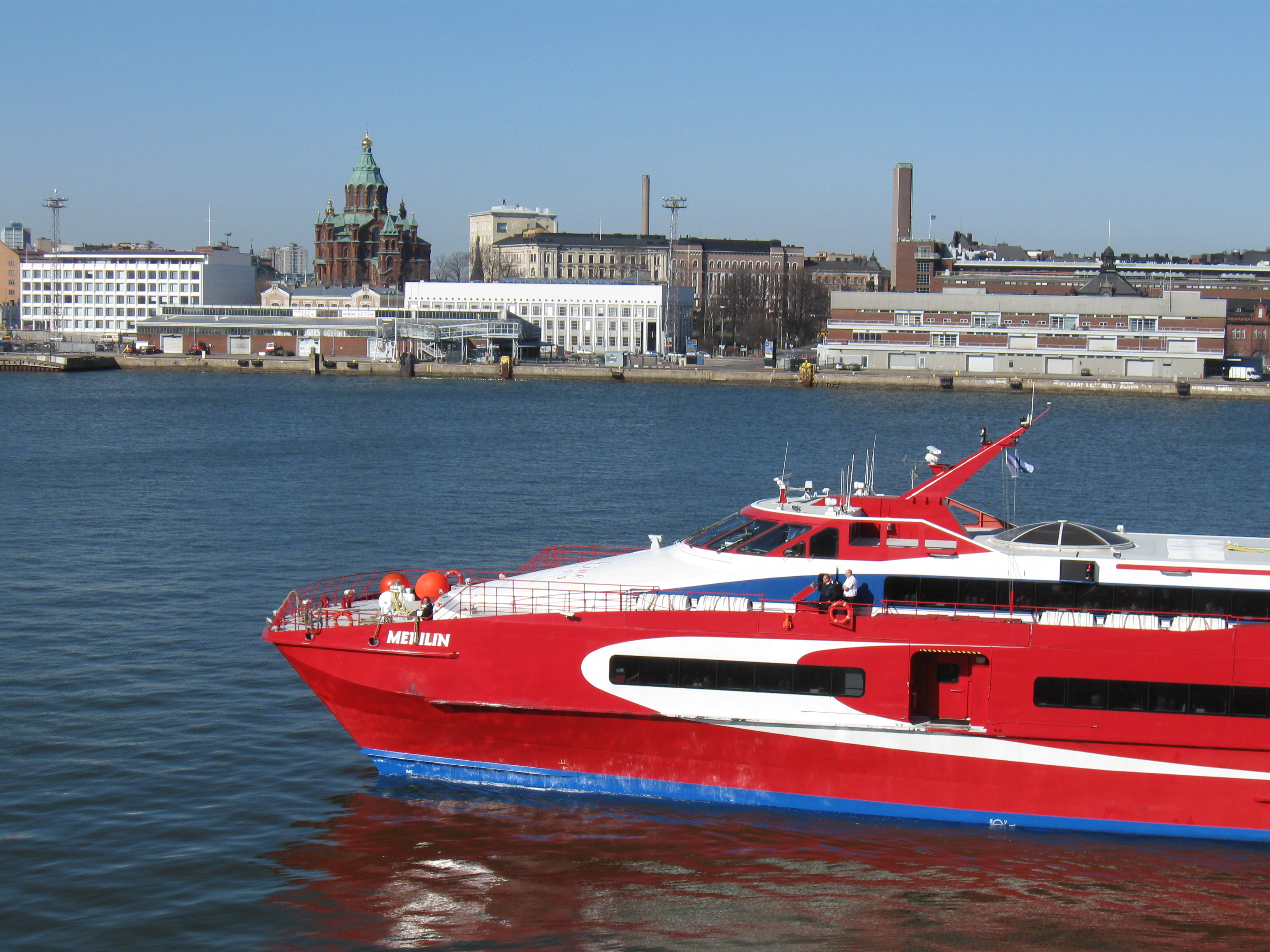 Estonian M/S Merilin in front of Helsinki, Finland.